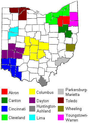 Map showing radio markets in Ohio, a state of the United States. Created by SwissCelt on March 2, 2006.